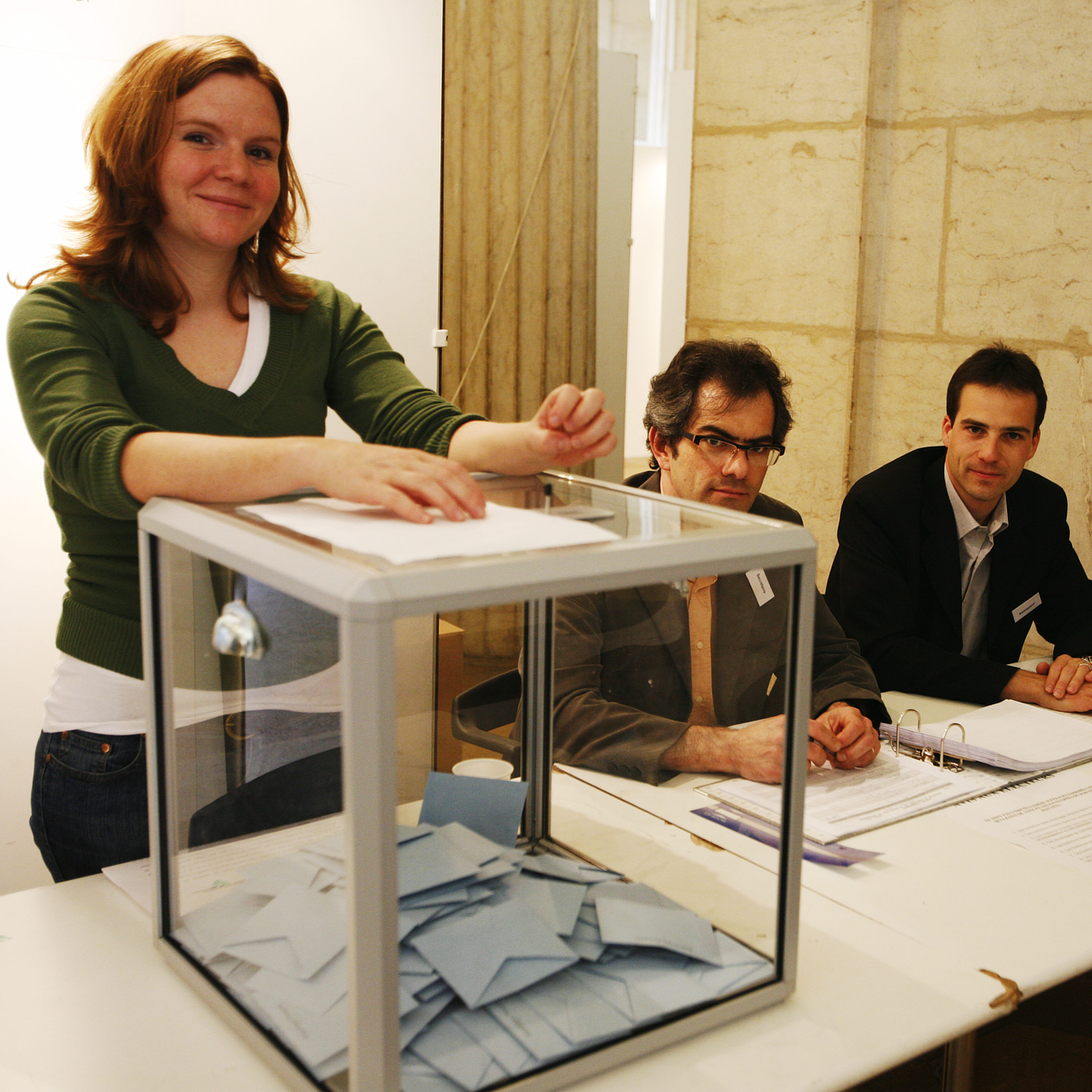 Second round of the French presidential election of 2007. Oral authorisation of the three officials was requested and obtained before the taking of the photograph (for which we are most grateful).